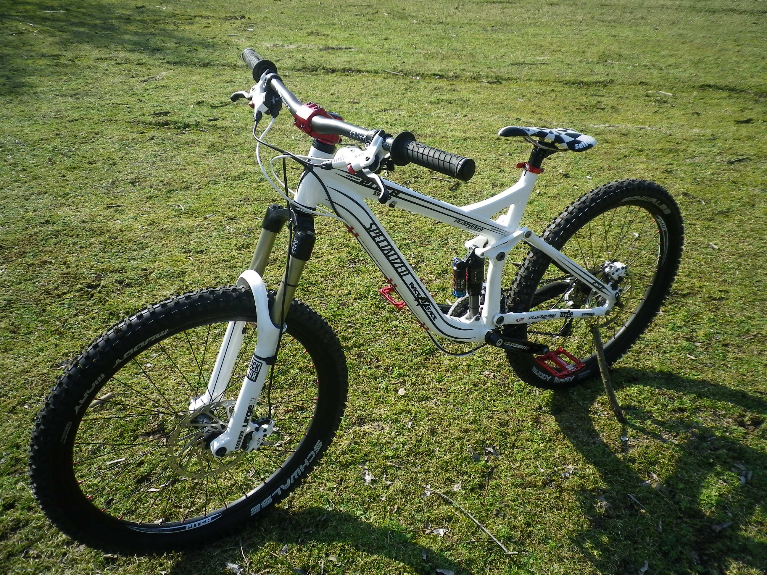 Custom build Specialized Pitch Comp 2010 for the use of AM, Enduro & Freeride Pentax Optio H90